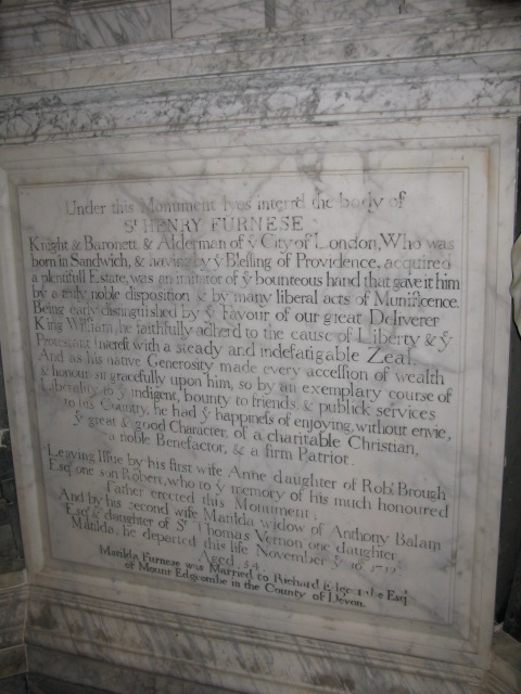 Description on Sir Henry Furnese monument, All Saints, Waldershare. The 'main' inscription on the monument in All Saints church, Waldershare. The monument is shown here 1610052 and various family members were added at later dates. Please see other submissions for remaining inscriptions.